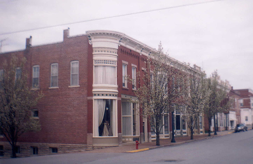 Gray-Wood Buildings downtown California, MO